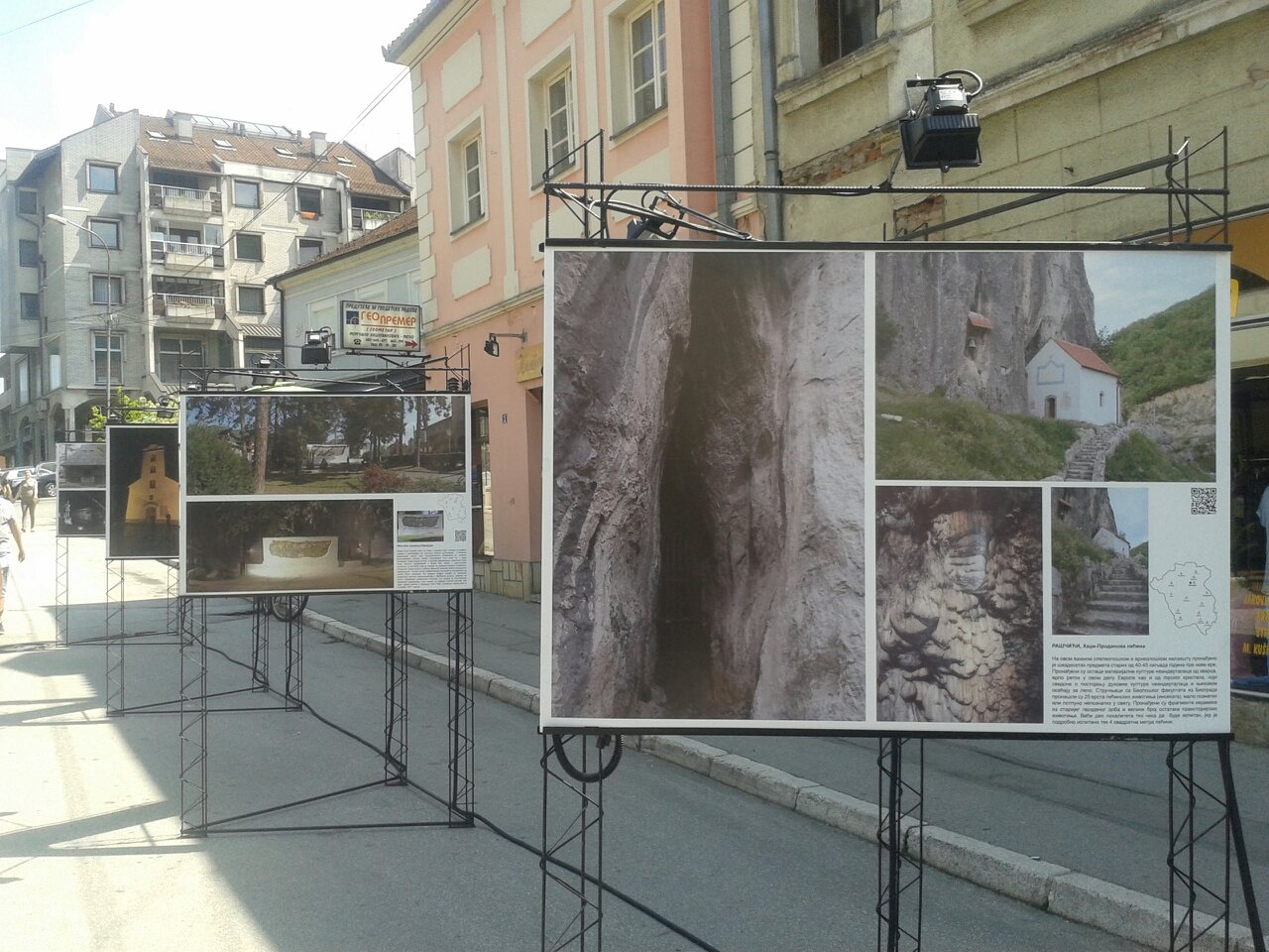 QRpedia's QR codes, Museum Night 2014 in Ivanjica009